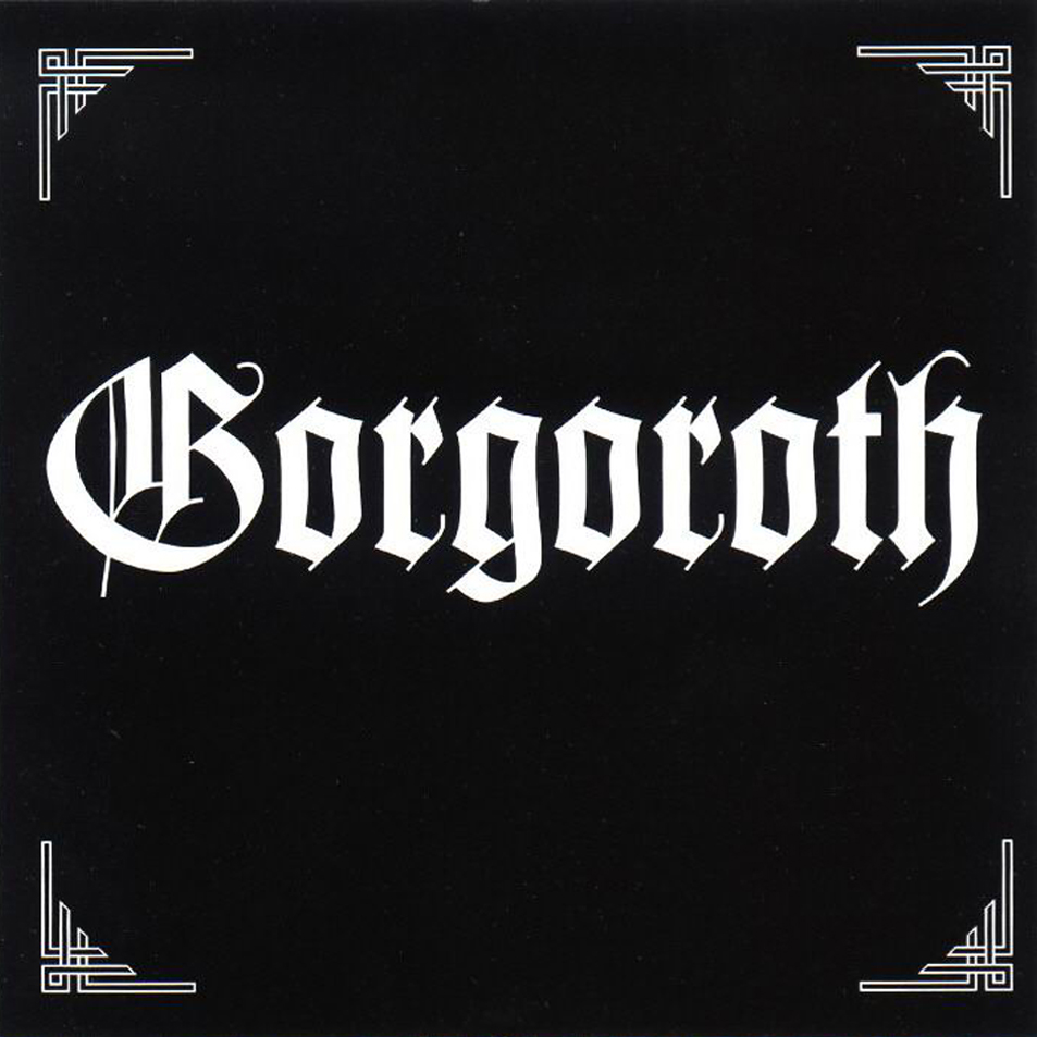 Cover of the album Pentagram by Gorgoroth.